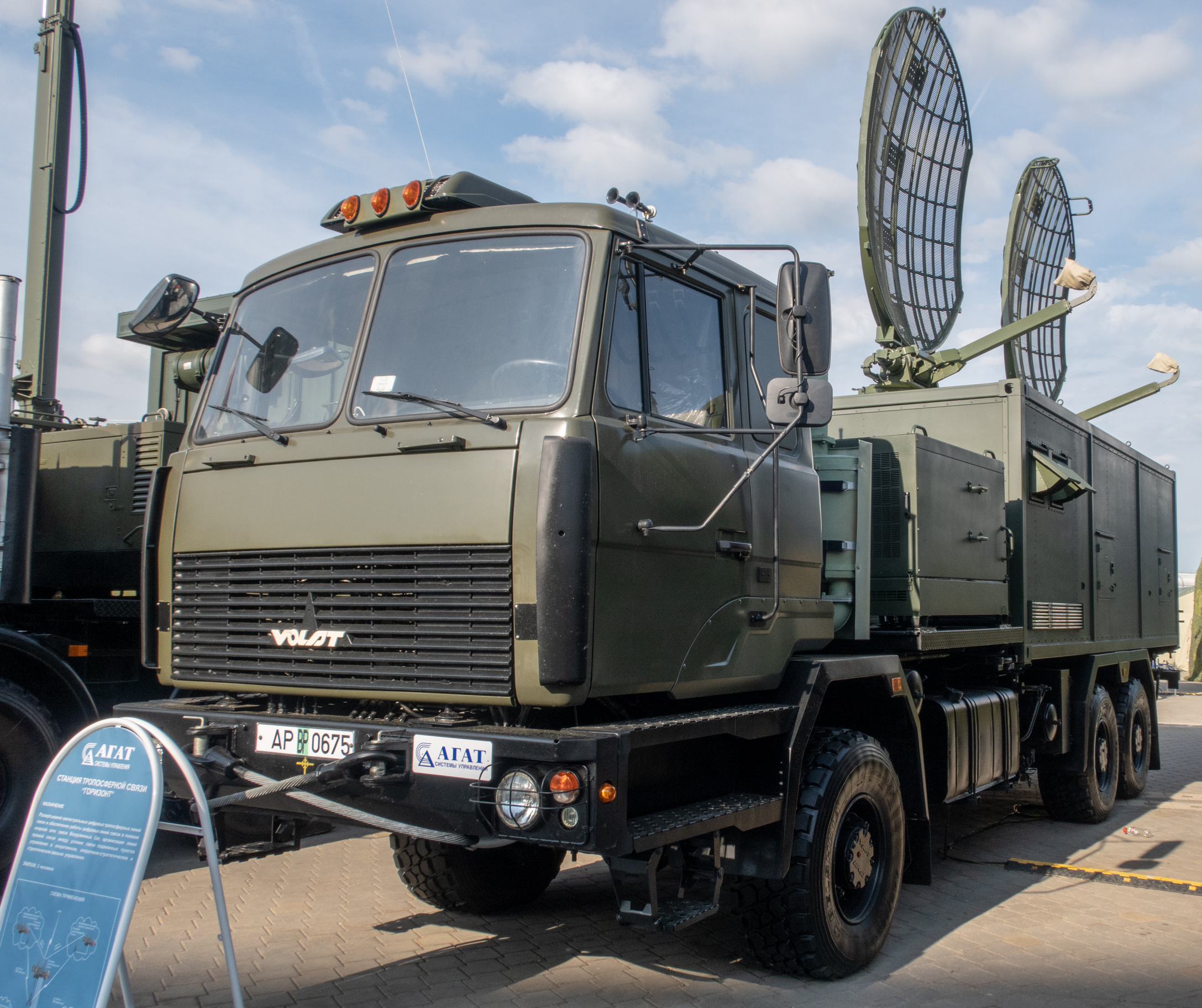 "Horizon" mobile tropospheric scatter system by "AGAT" company (Belarus) on MZKT (Volat) chassis. Milex-2019 arms and military machinery exhibition (Minsk, Belarus)